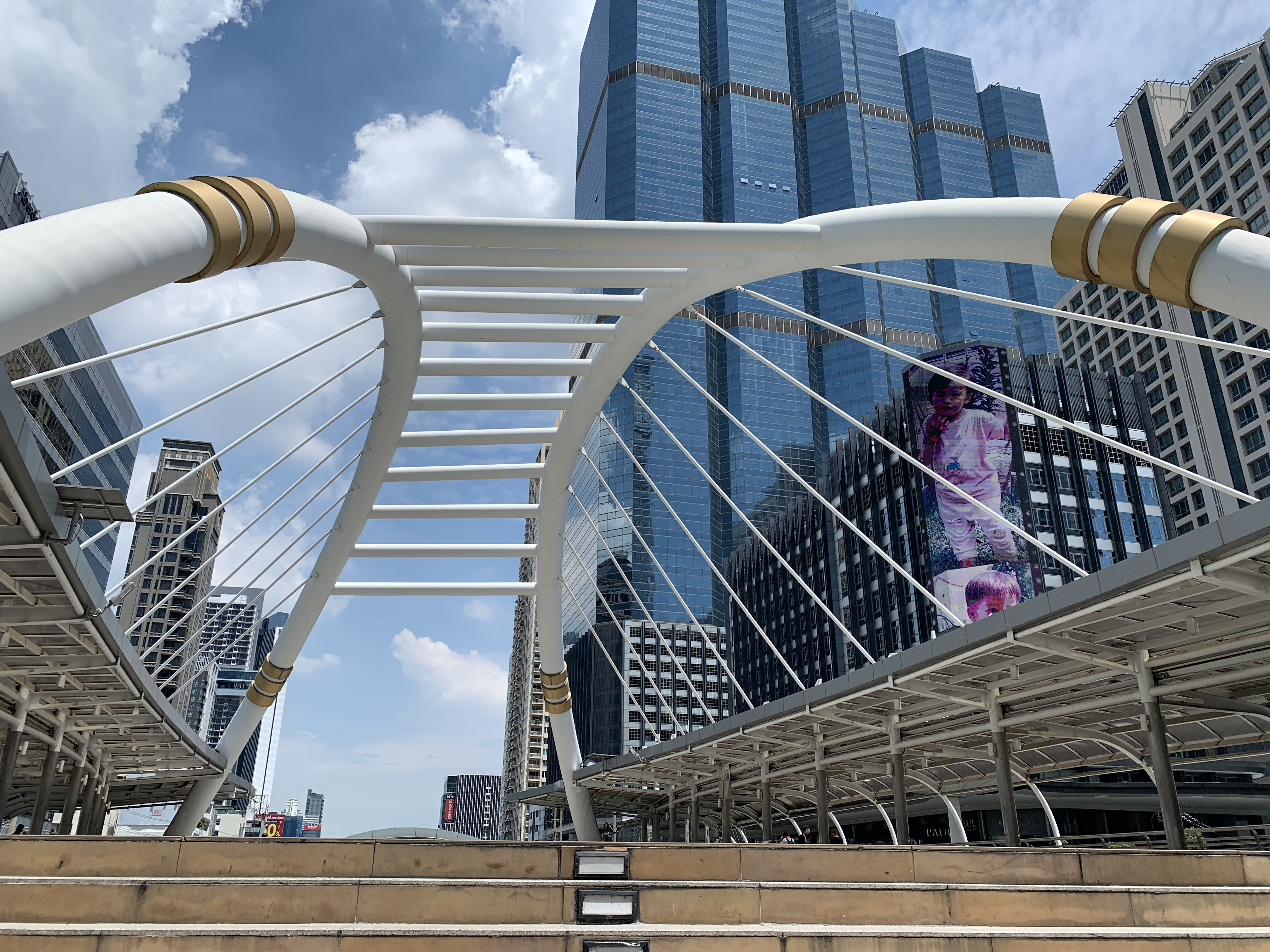 Sathon Skywalk, Bangkok